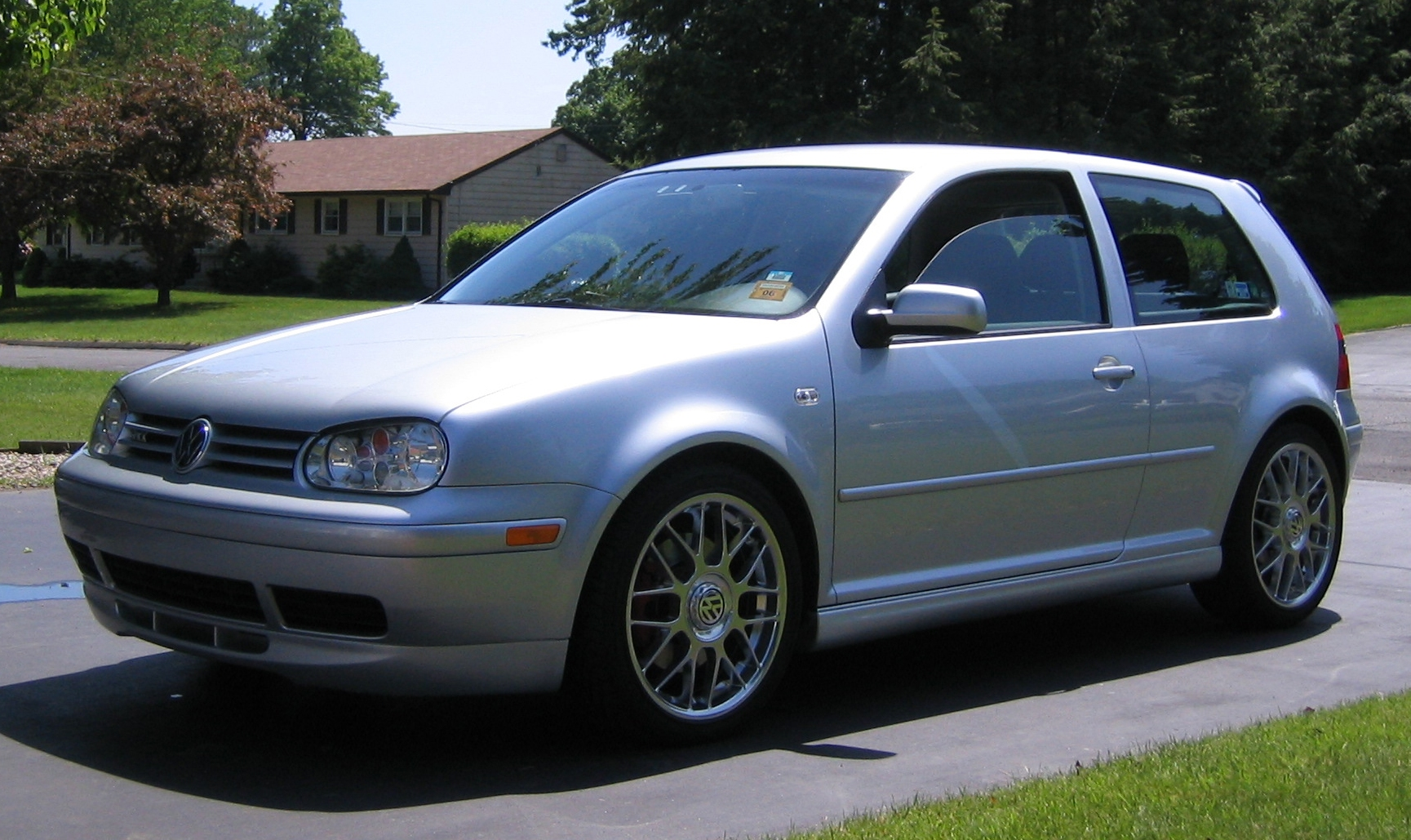 Photo of a Volkswagen GTI 337 Edition (2002). Taken June 2006 by Jason Leonard. Should appear in Volkswagen Golf